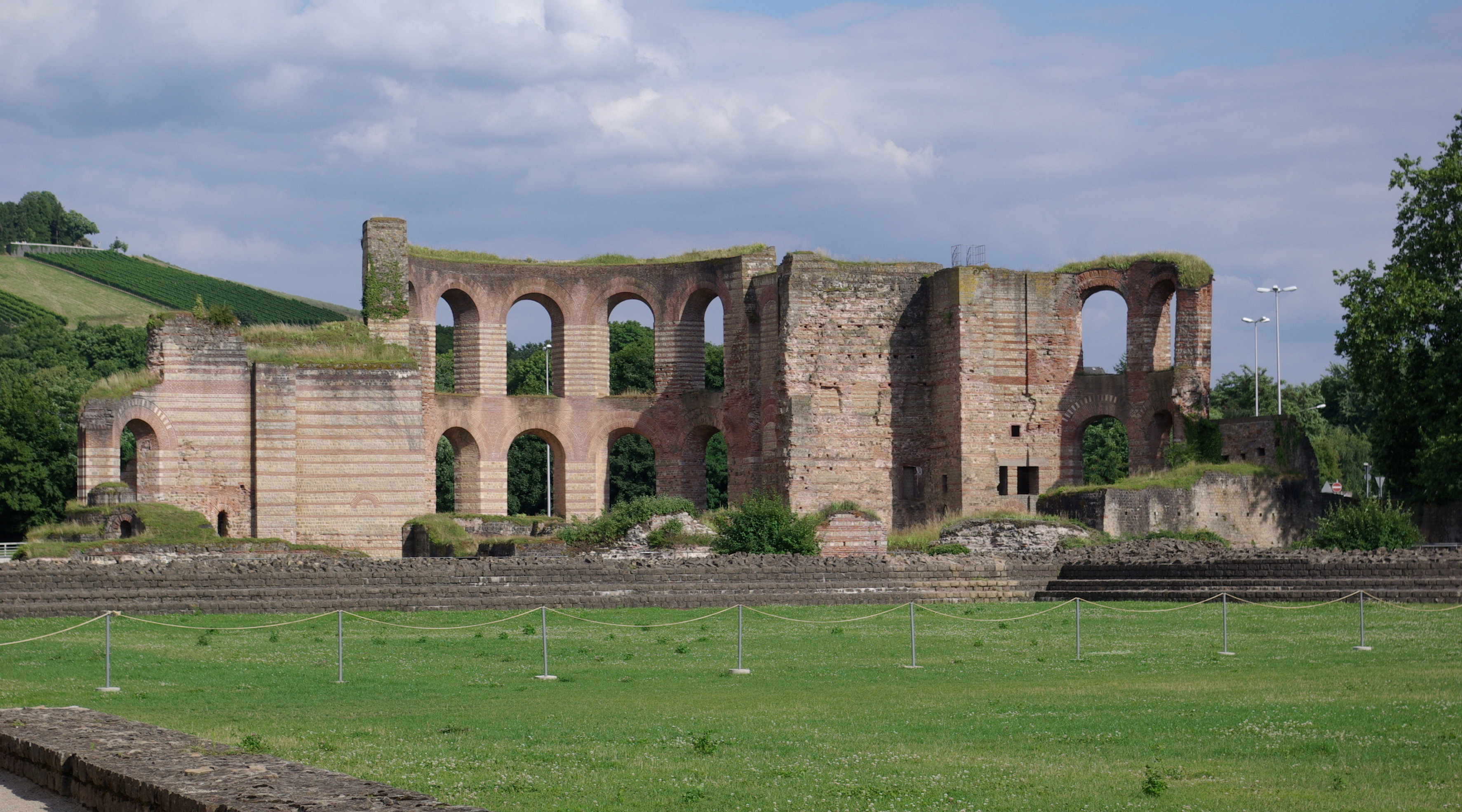 Imperial thermæ in Trier.